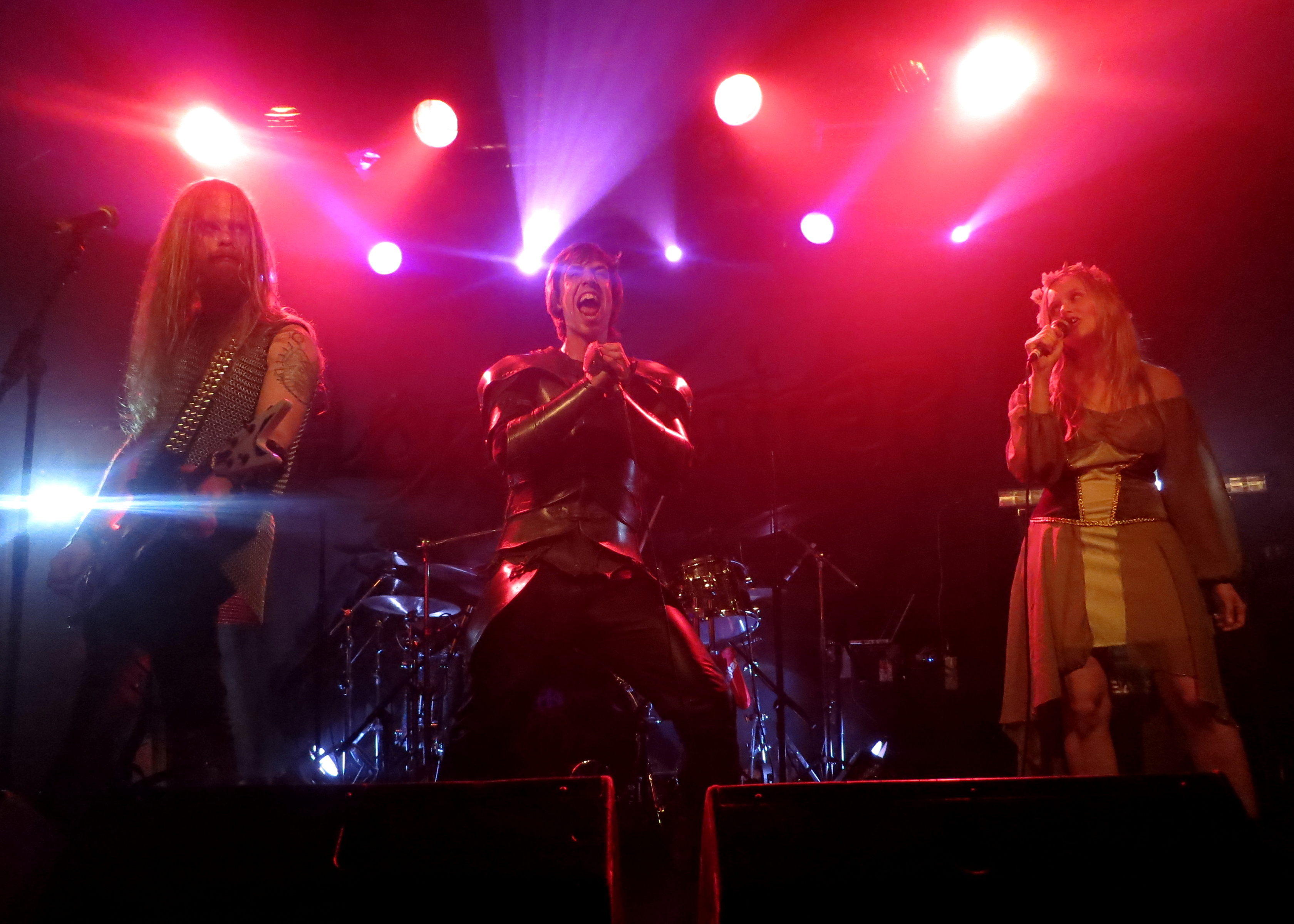 Gloryhammer performing in London in 2013